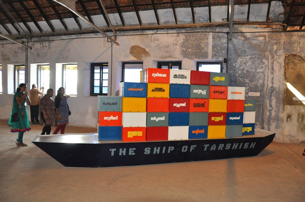 Viewers seeing the ship of tarship by prasad raghavan